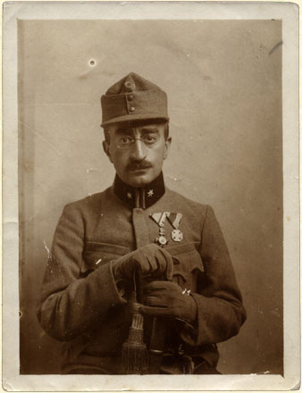 Otto Sittig